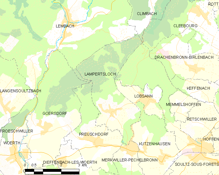 Map of French municipality